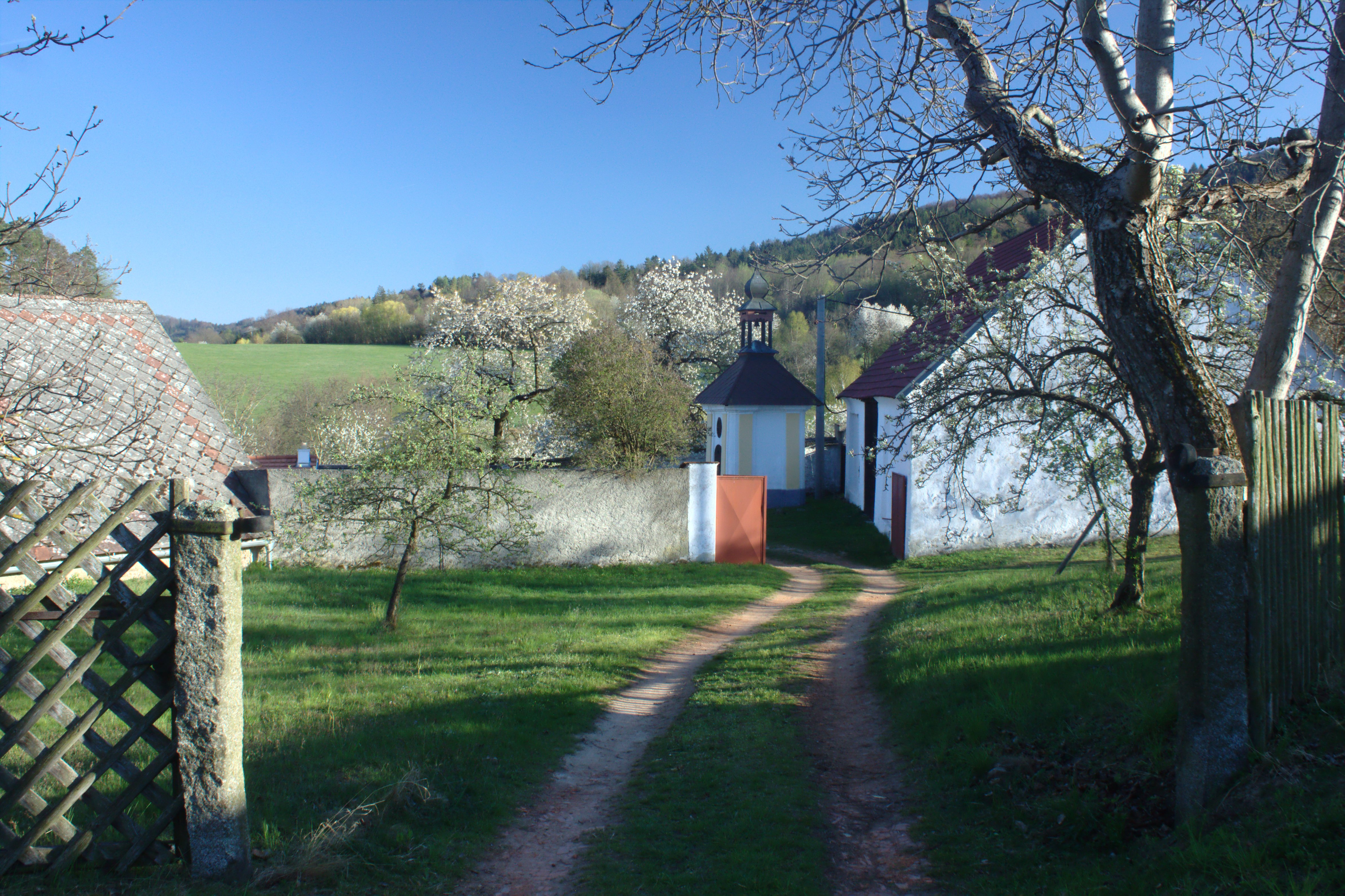 This photograph was created as a part of Wikiexpedition Mladá Vožice, a project supported by Wikimedia Foundation grant.